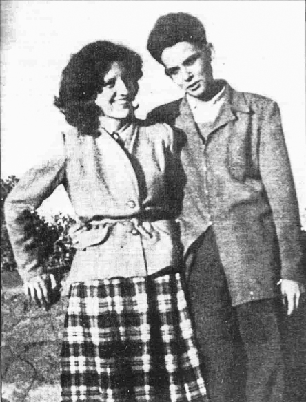 Maurice and Josette Audin. Maurice Audin was a French reader at Alger University, supporting Algerian nationalists and militant for the Algerian independance. He was kidnapped and slayed by the French Army.